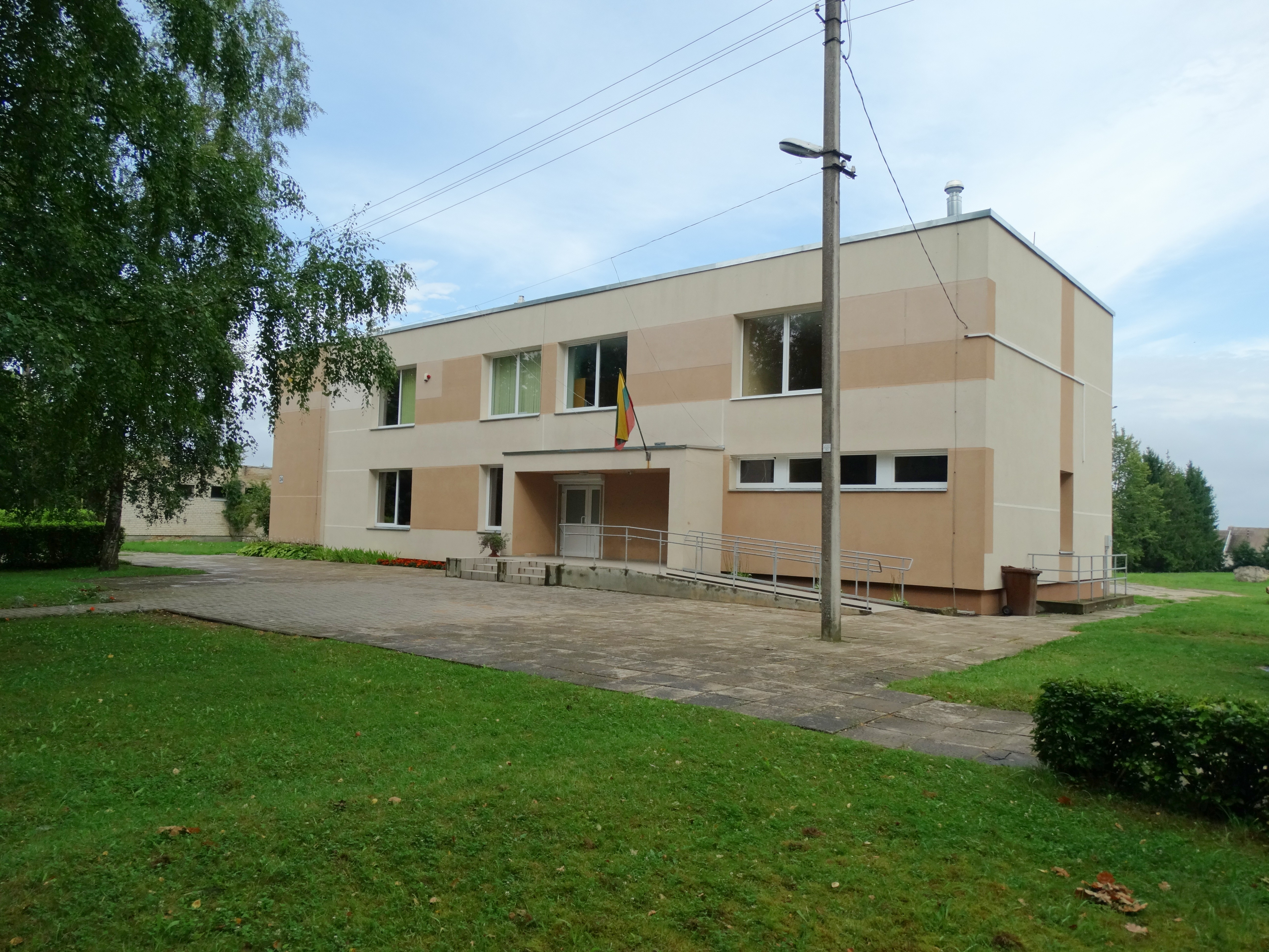 Sablauskiai, Akmenė district, Lithuania